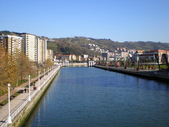 The river of Bilbao. To the found the Deusto's bridge and Deusto's university, to the right the Zubiarte mall and more to the found the Guggerheim museum.